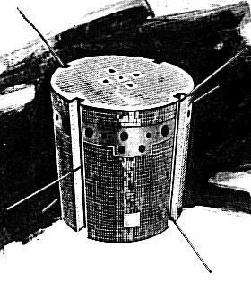 Owl satellite